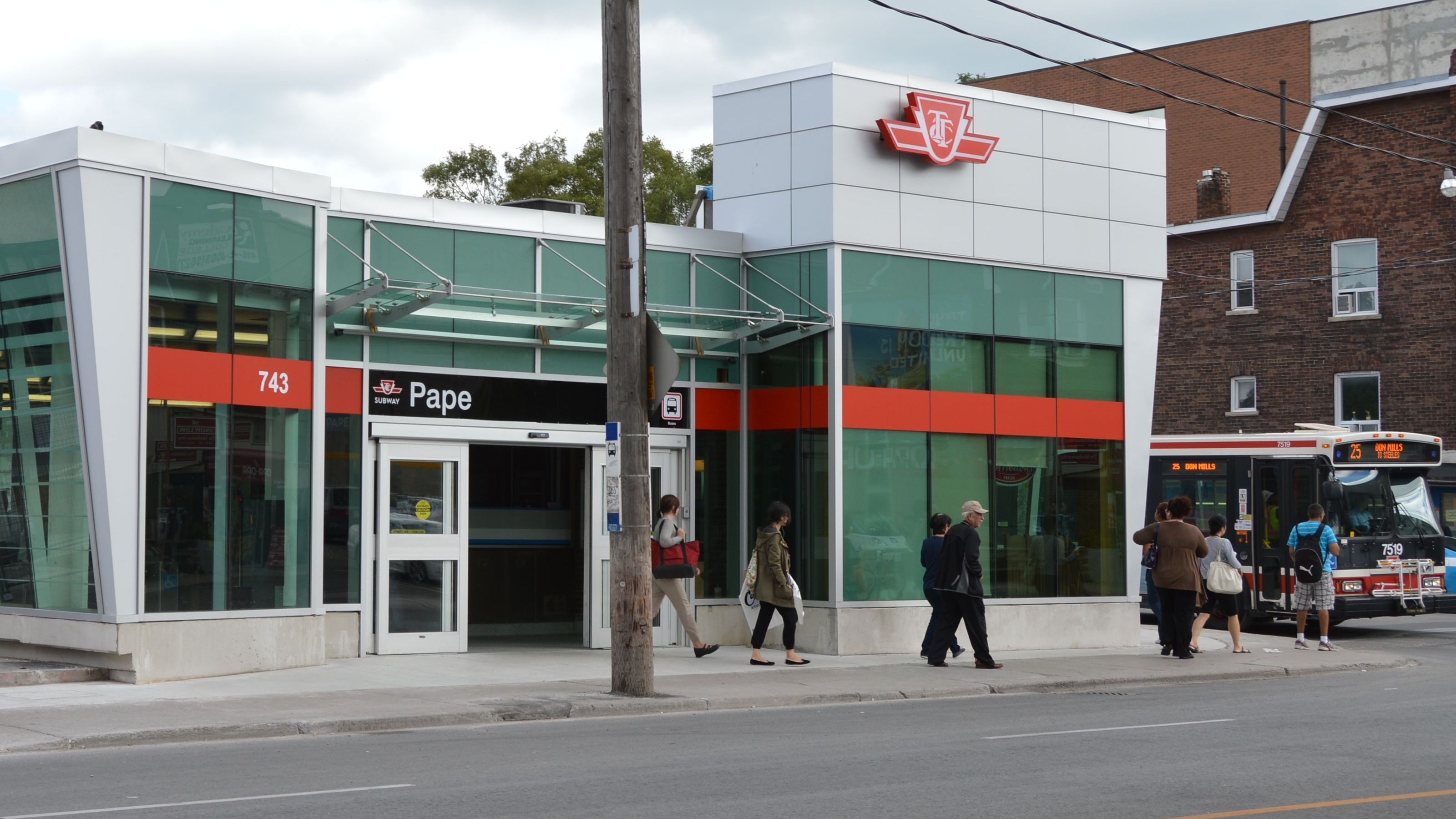 The renovations at Pape subway station in Toronto are almost done